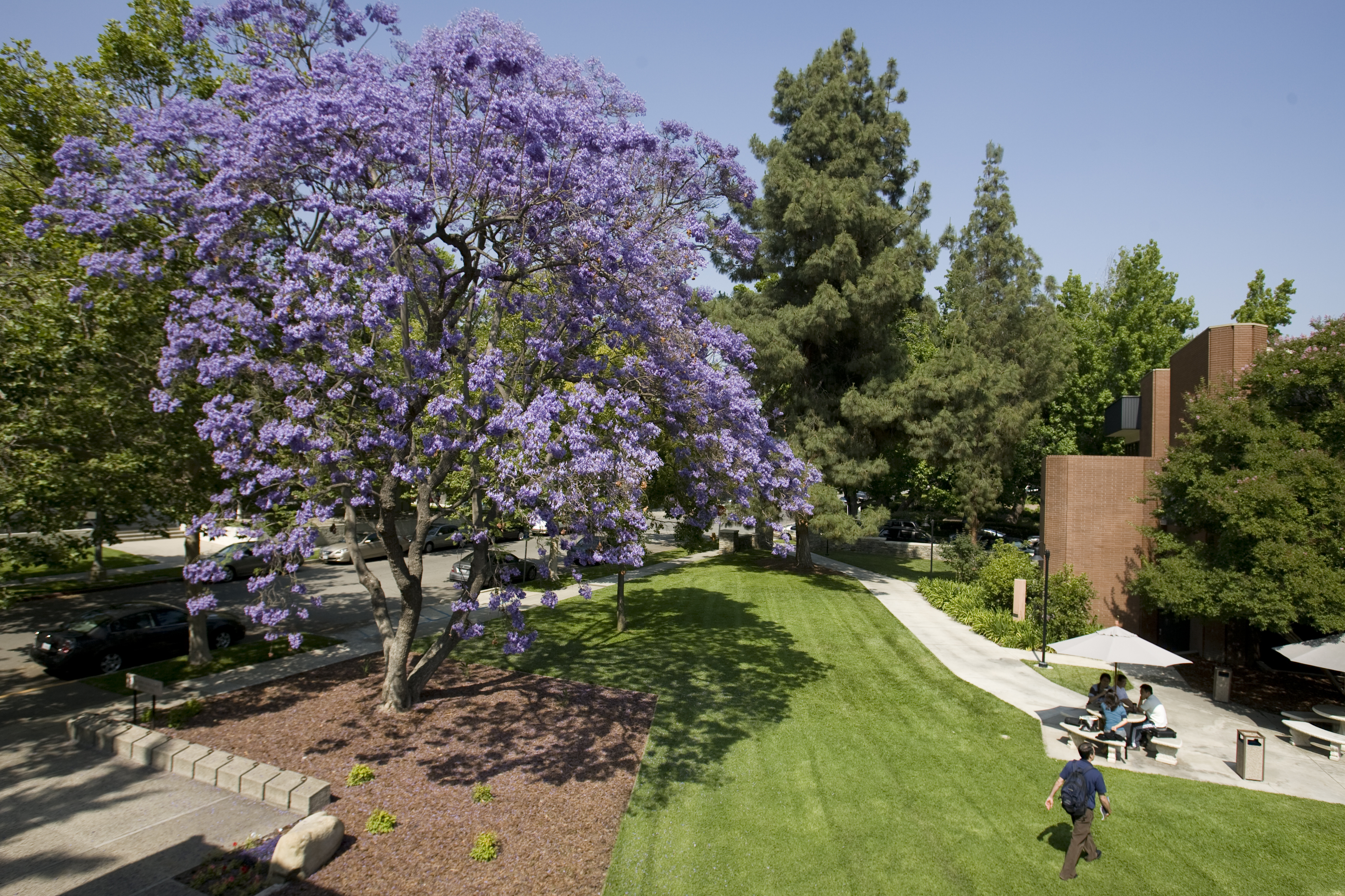 Campus Exterior, Claremont Graduate University